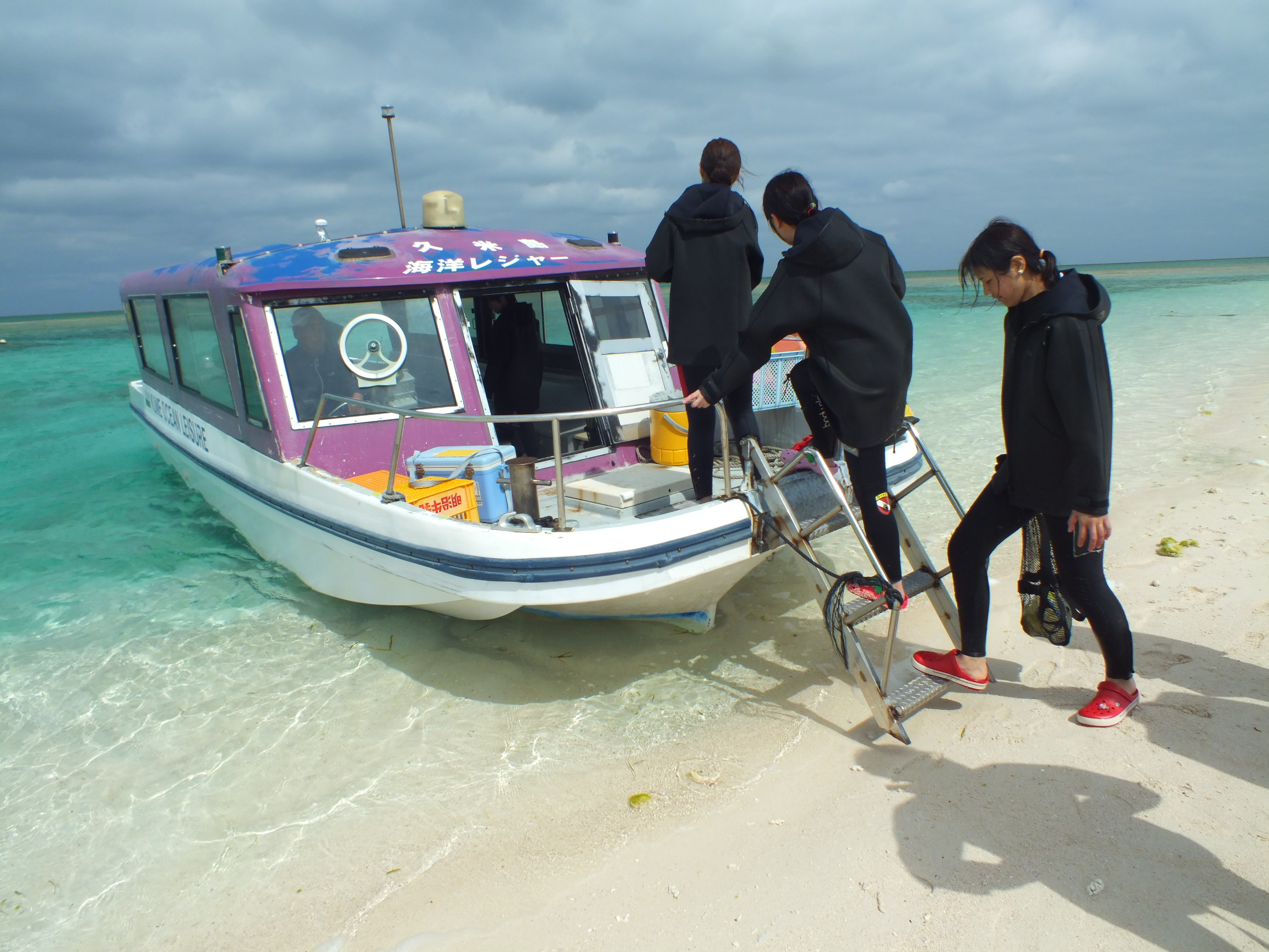 People going on board, at Hateno-hama beach.